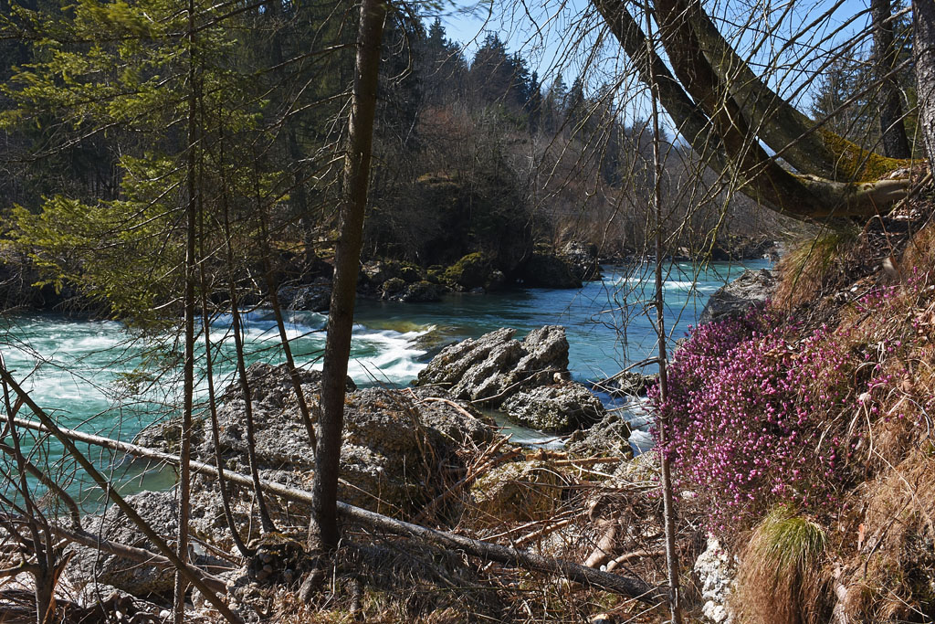 Below the conglomerate cliffs of Okroglo, the flow of Sava is quite lively.